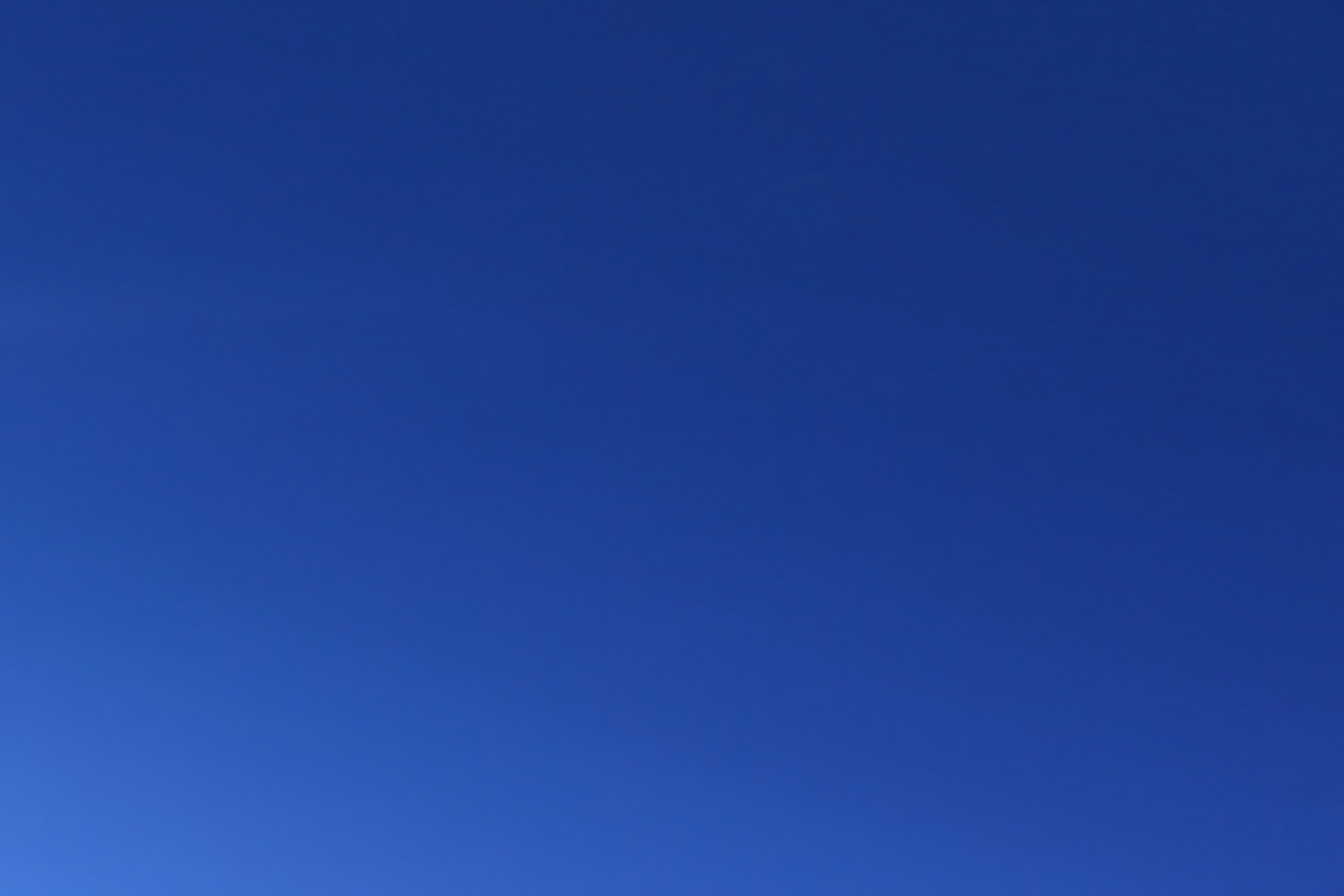 sky blue